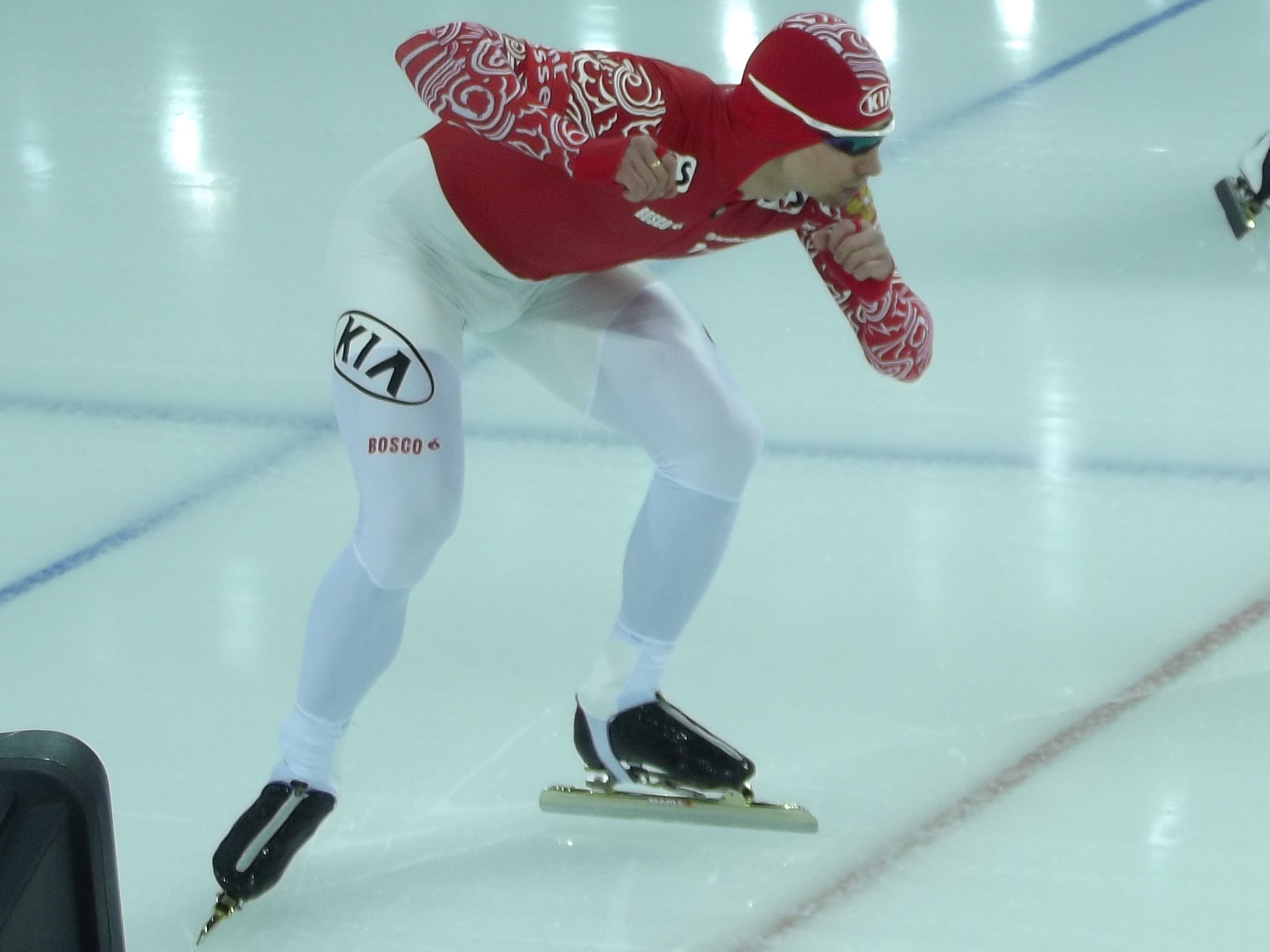 2013 World Single Distance Speed Skating Championships